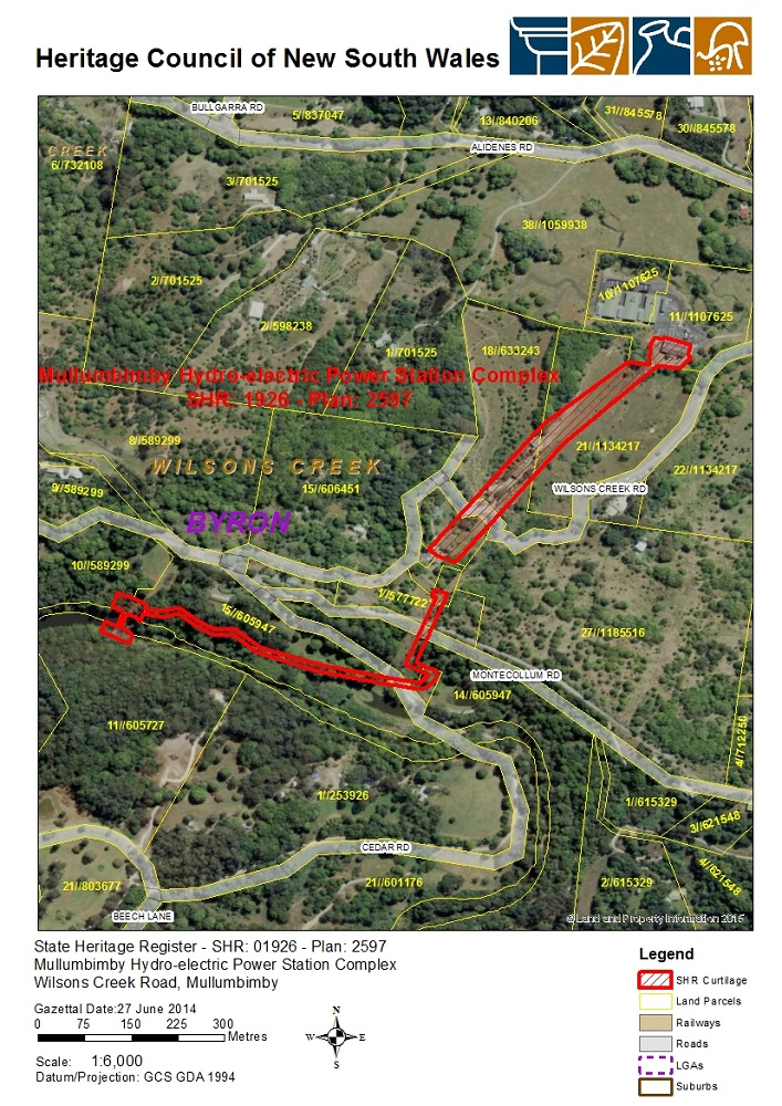 Mullumbimby Hydro-electric Power Station Complex: SHR PlanNo 2597